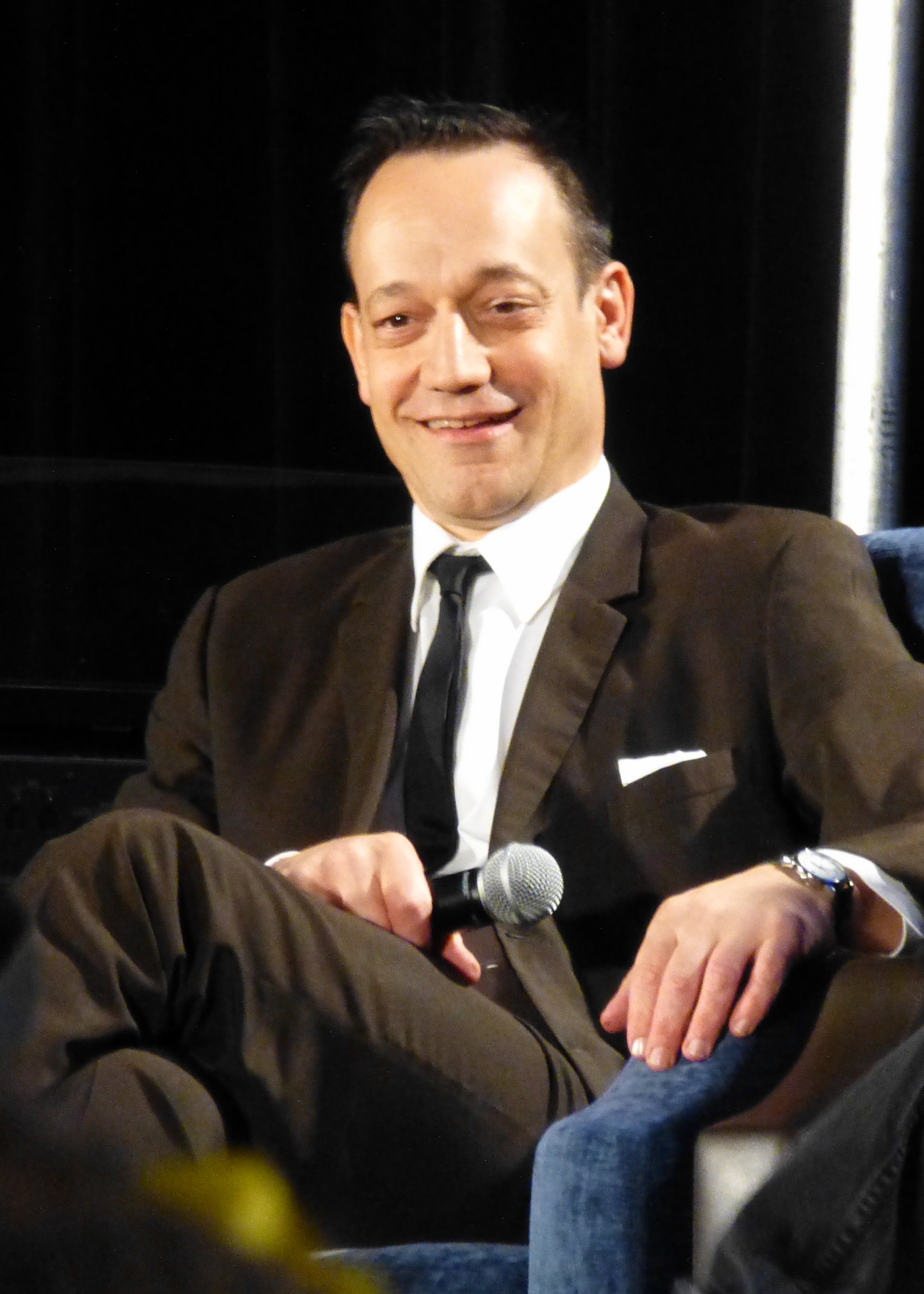 Top sidekick, Ted Raimi Panel with cast and crew of both Evil Dead 1 and 2, hosted by Bruce Campbell Guests at the 2015 Wizard World Chicago.